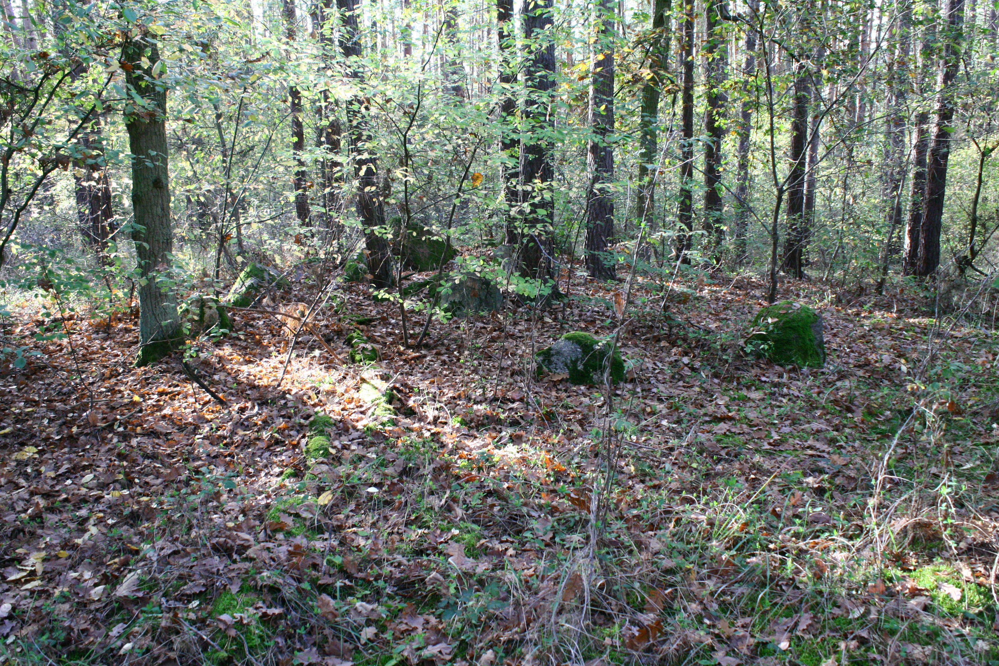 Megalithic tomb Haldensleben II 23